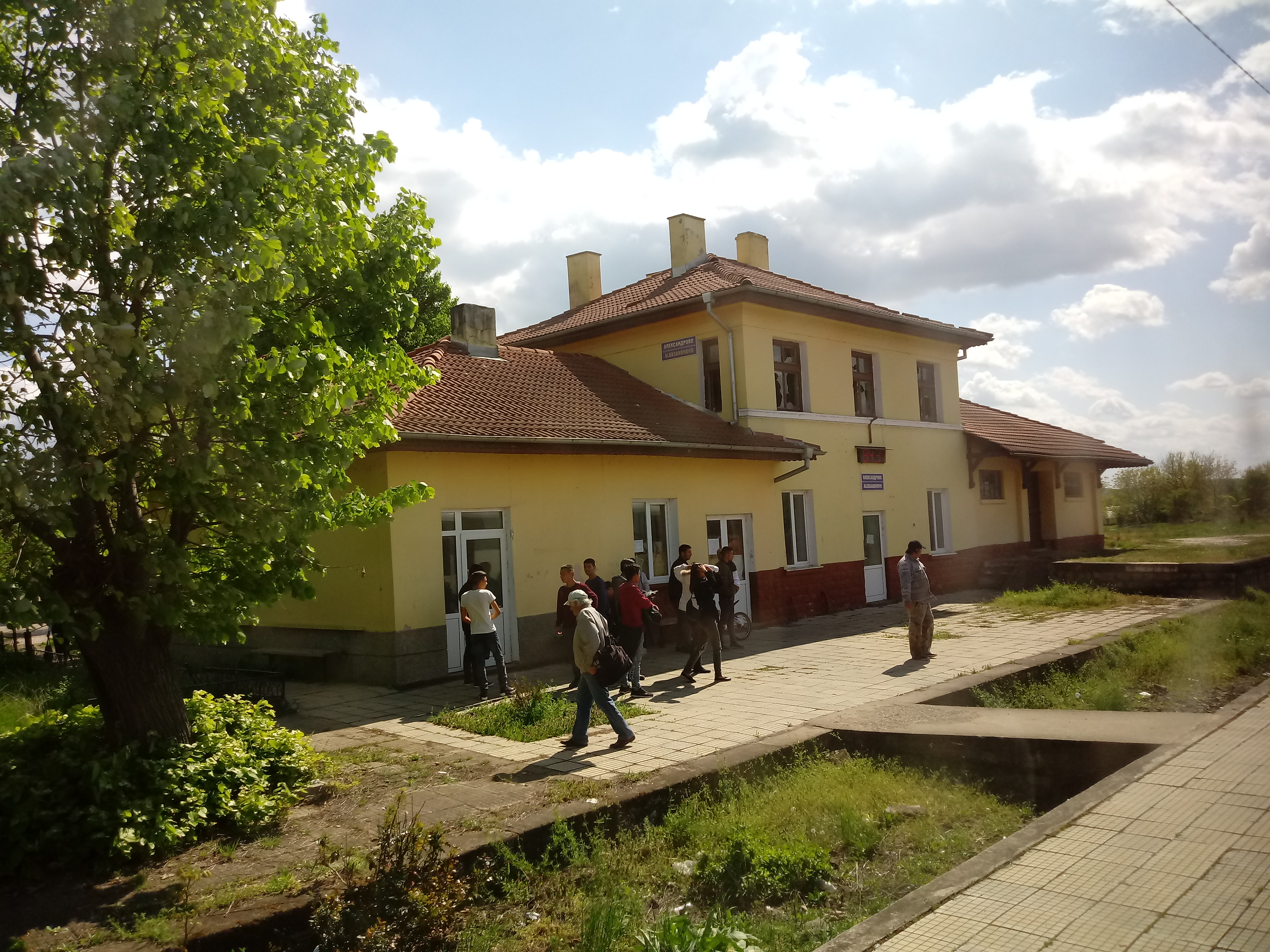 Railway station in the Bulgarian village of Aleksandrovo, Lovech Province